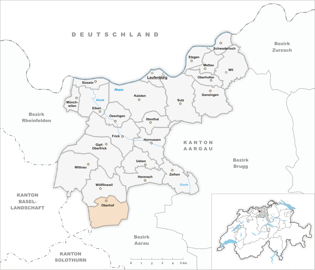 Municipality Oberhof